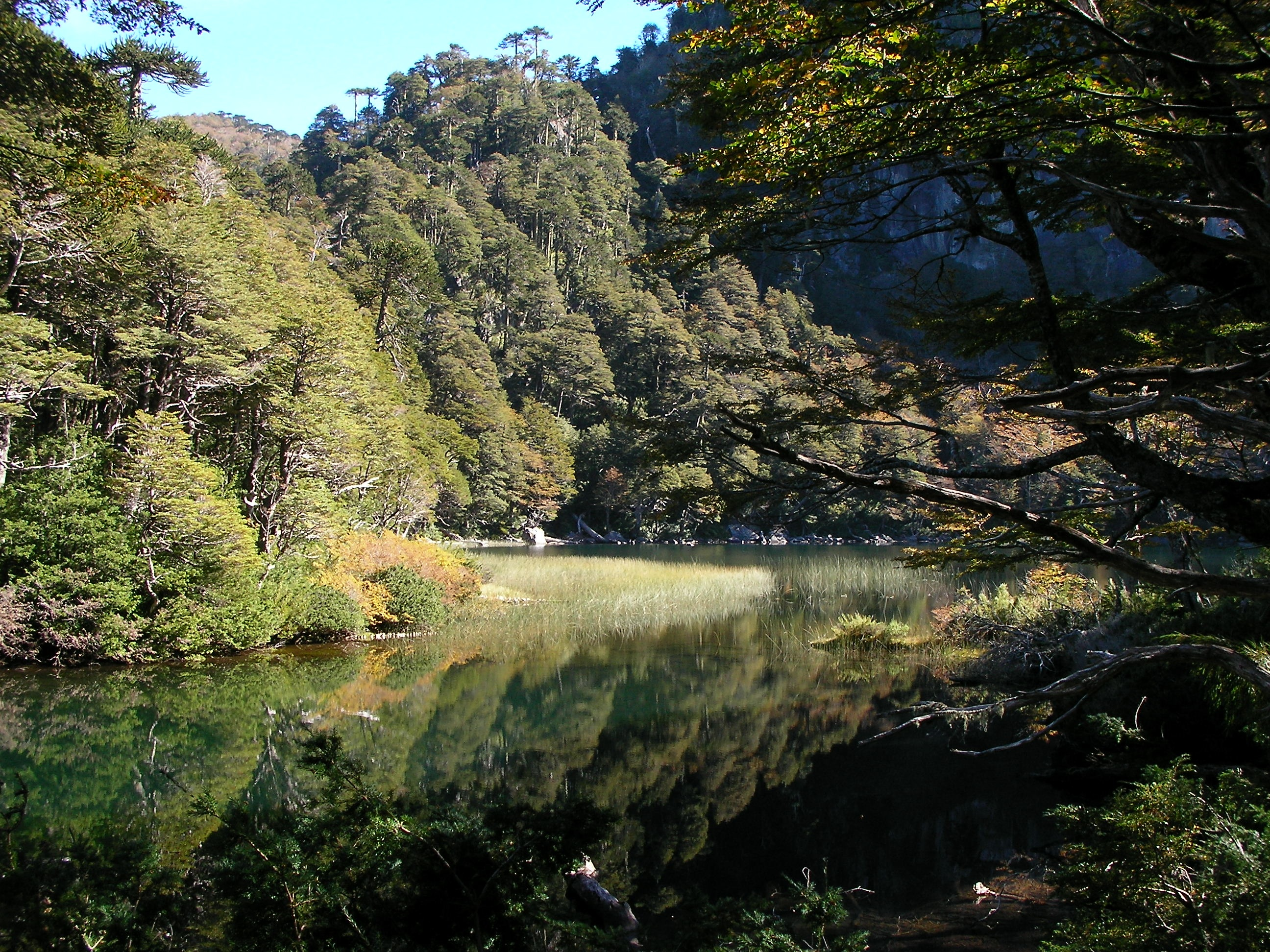 Looking northwest in Huerquehue National Park (Parque Nacional Huerquehue), which is northeast of Pucón, Chile. Camera location is east of Lago (Lake) Caburgua and north of Lago Tinquilco. Elevation 1300 meters.